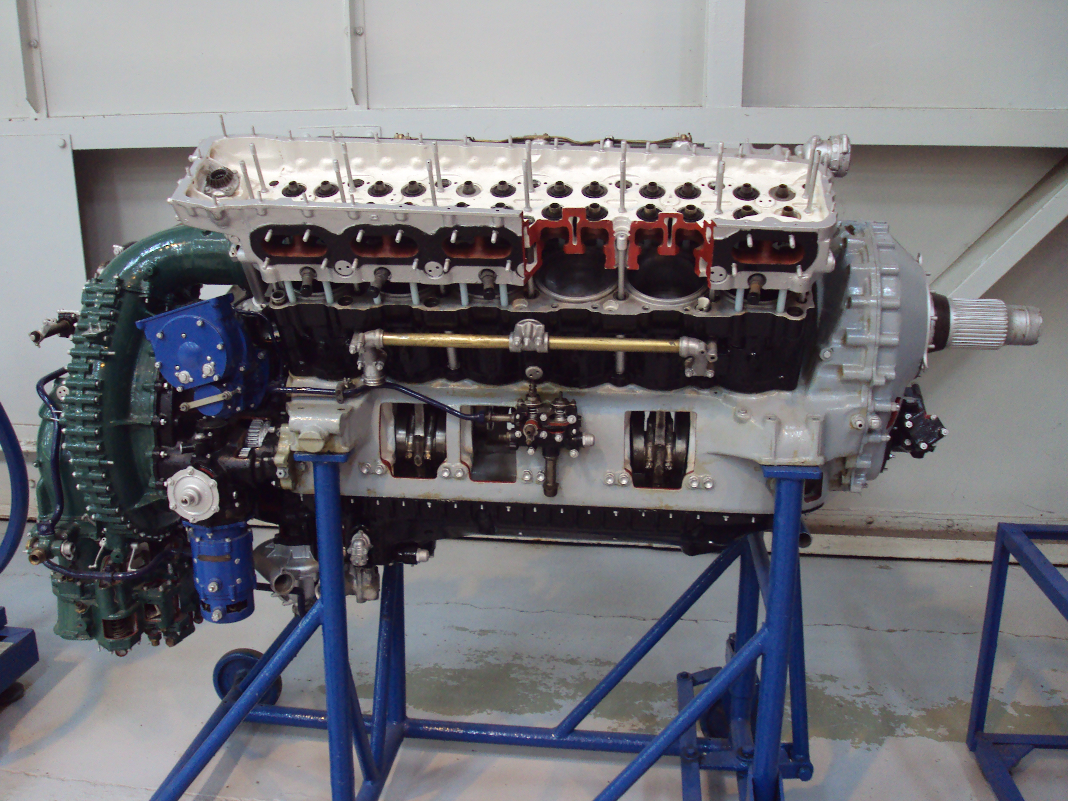 Rolls Royce Merlin 12-cylinder supercharged liquid-cooled piston engine. Photo taken at the RAF Museum Cosford, Shropshire, England.